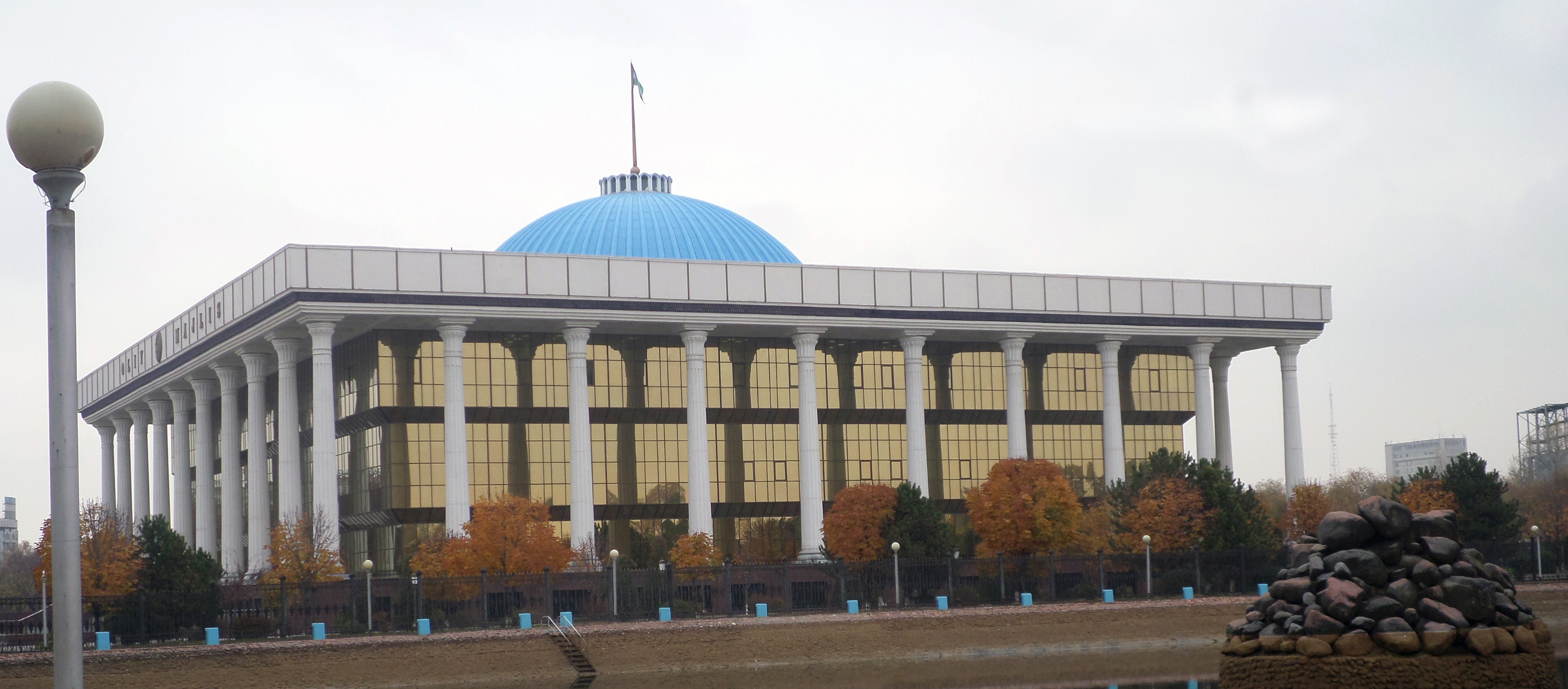 Oliy Majlis parliament of Uzbekistana